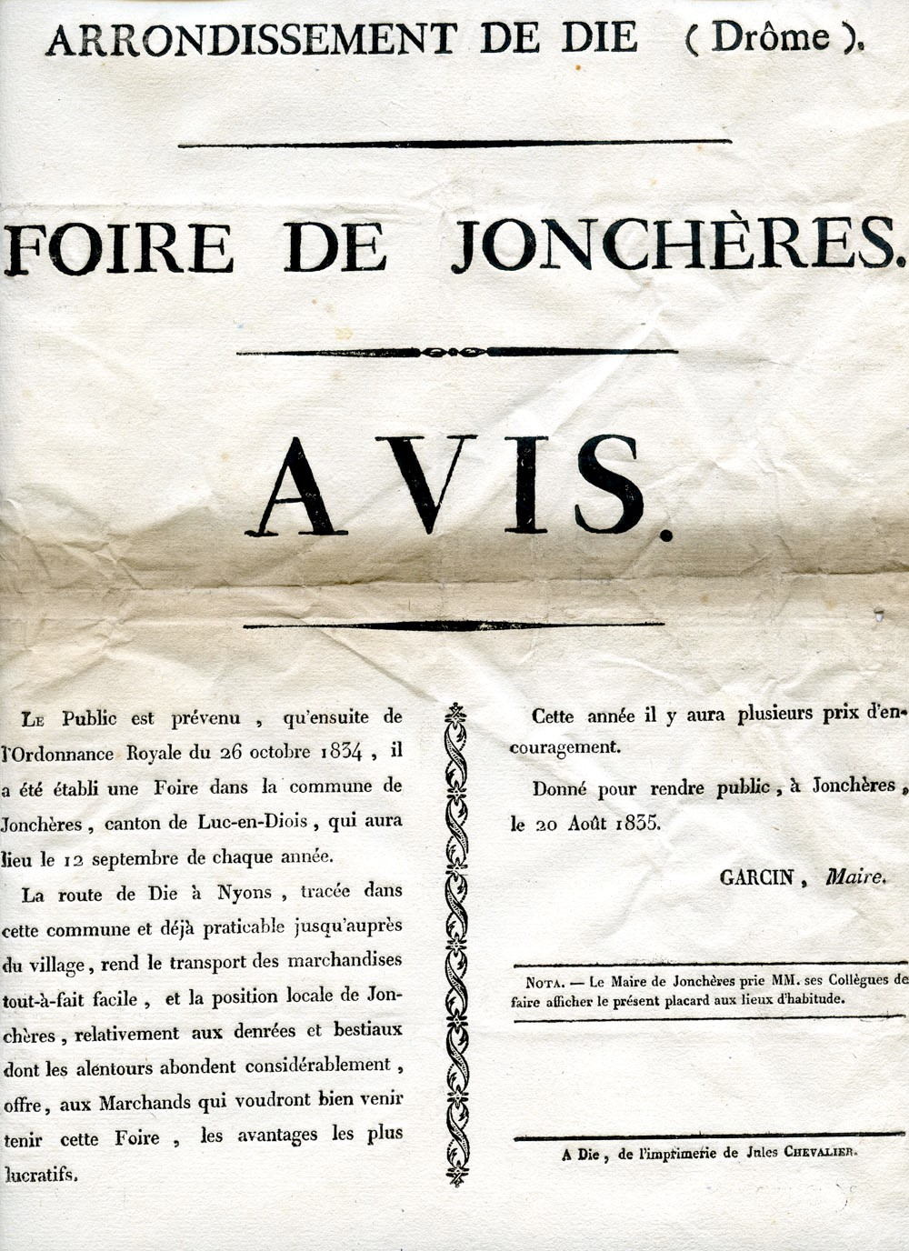 Poster informing the inhabitants of the creation of a fair in the town of Jonchères, in the canton of Luc-en-Diois, pursuant to the Royal Decree of October 26, 1834